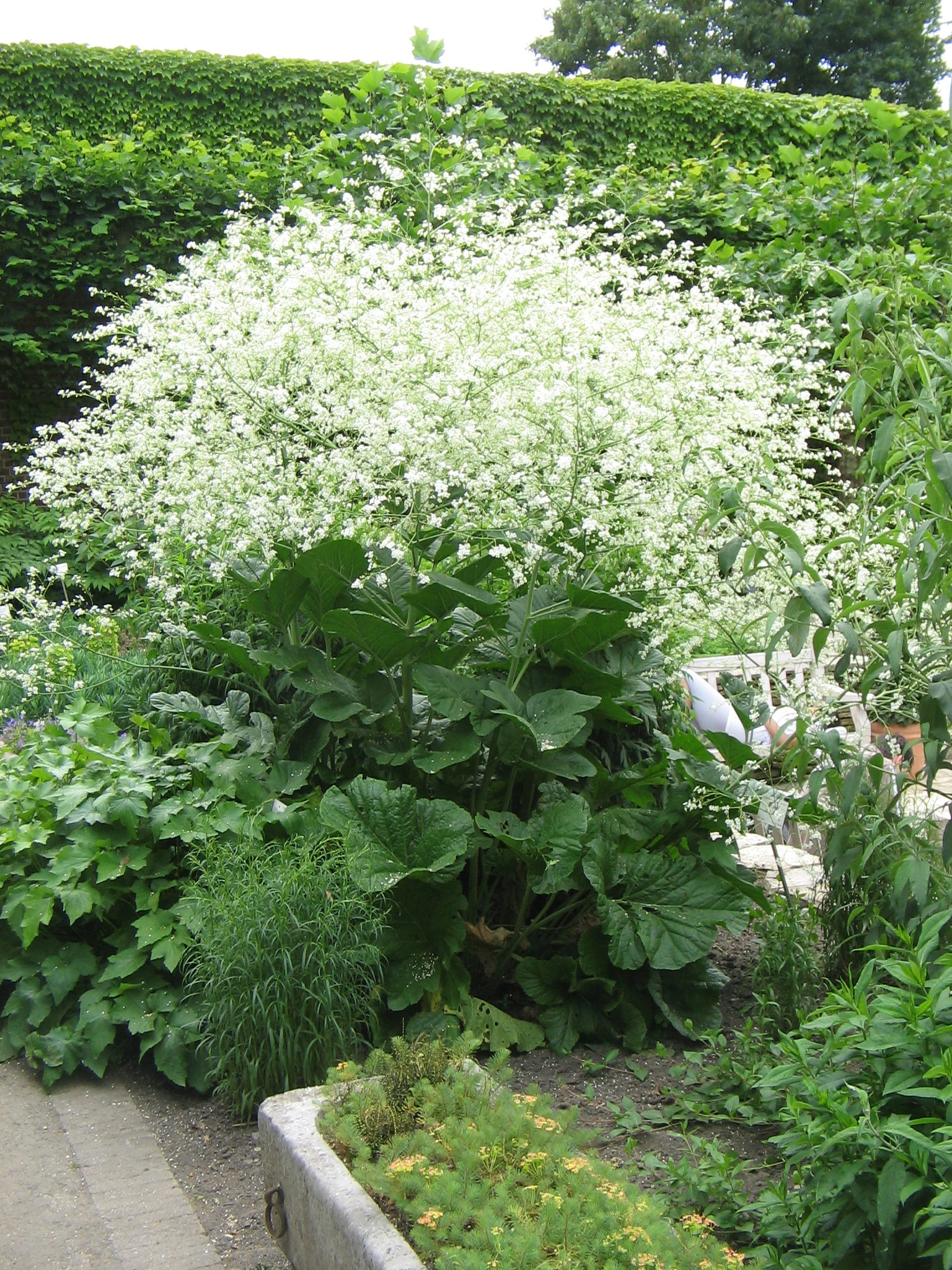 Crambe cordifolia